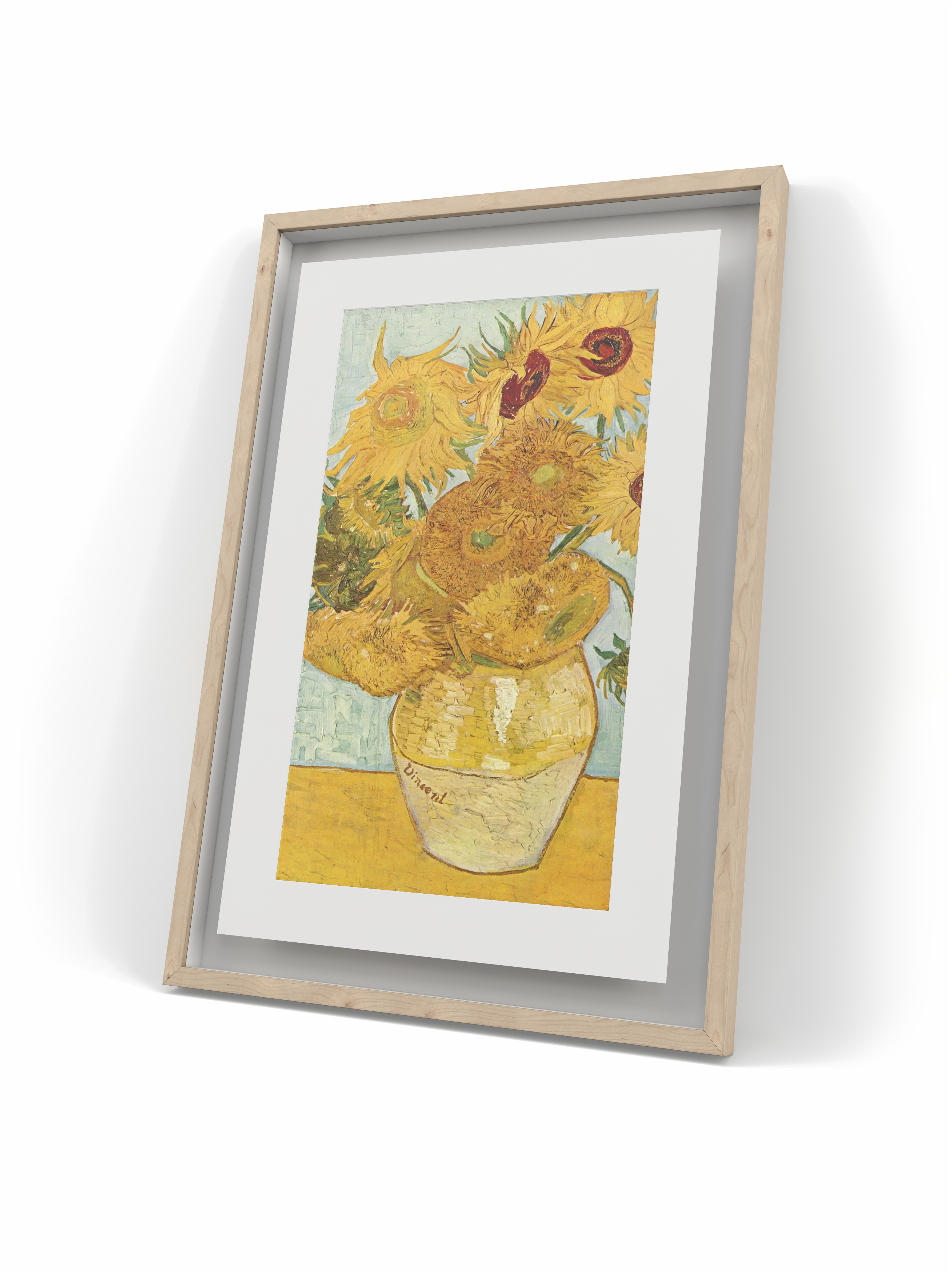 The Meural Lightbox design for their digital canvas.